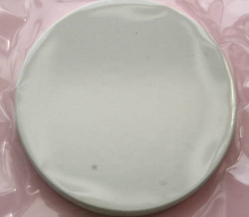 BaTiO3 ceramics in plastic package